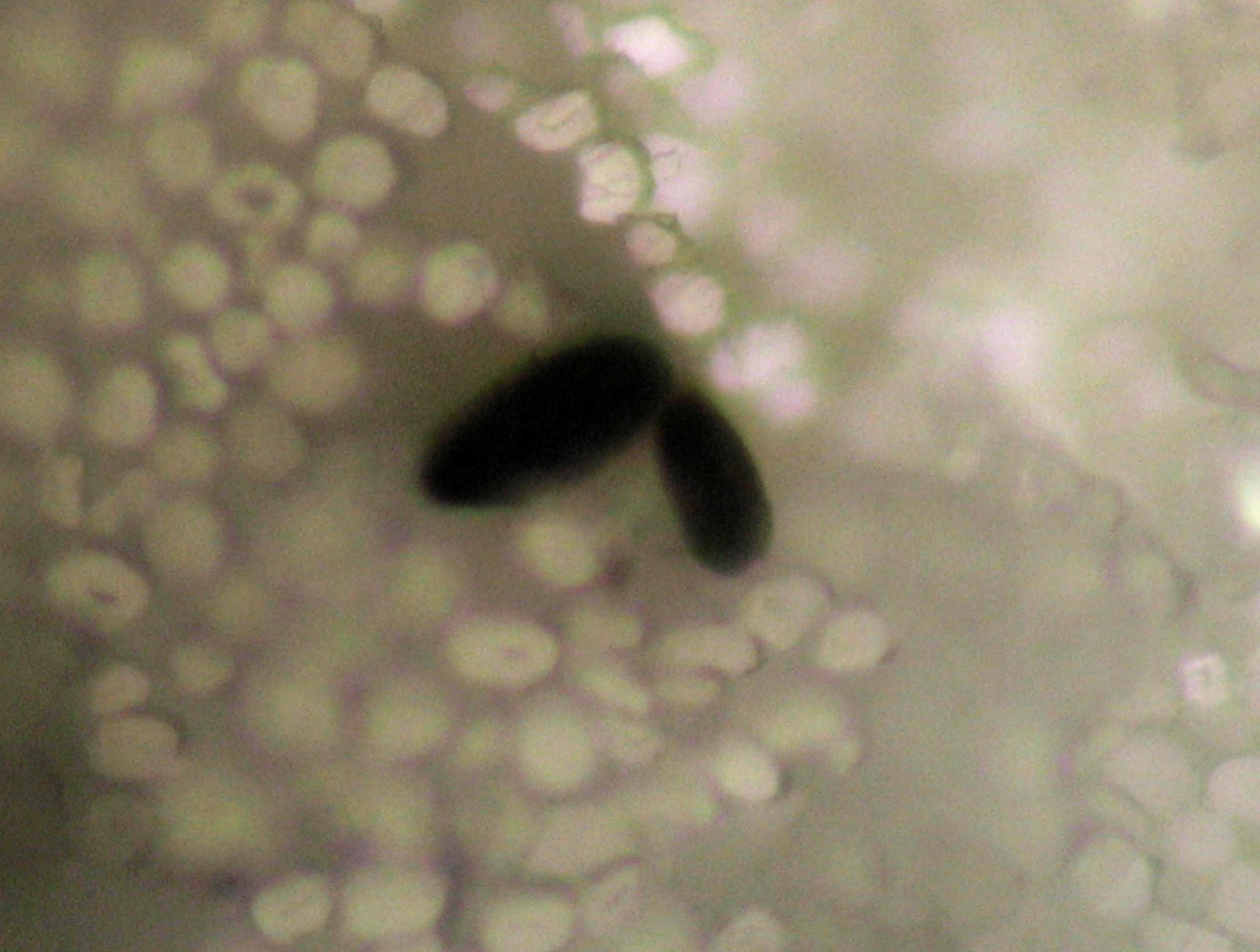 Cross section of a byssus . You can see the elliptical cross section of the fibers .